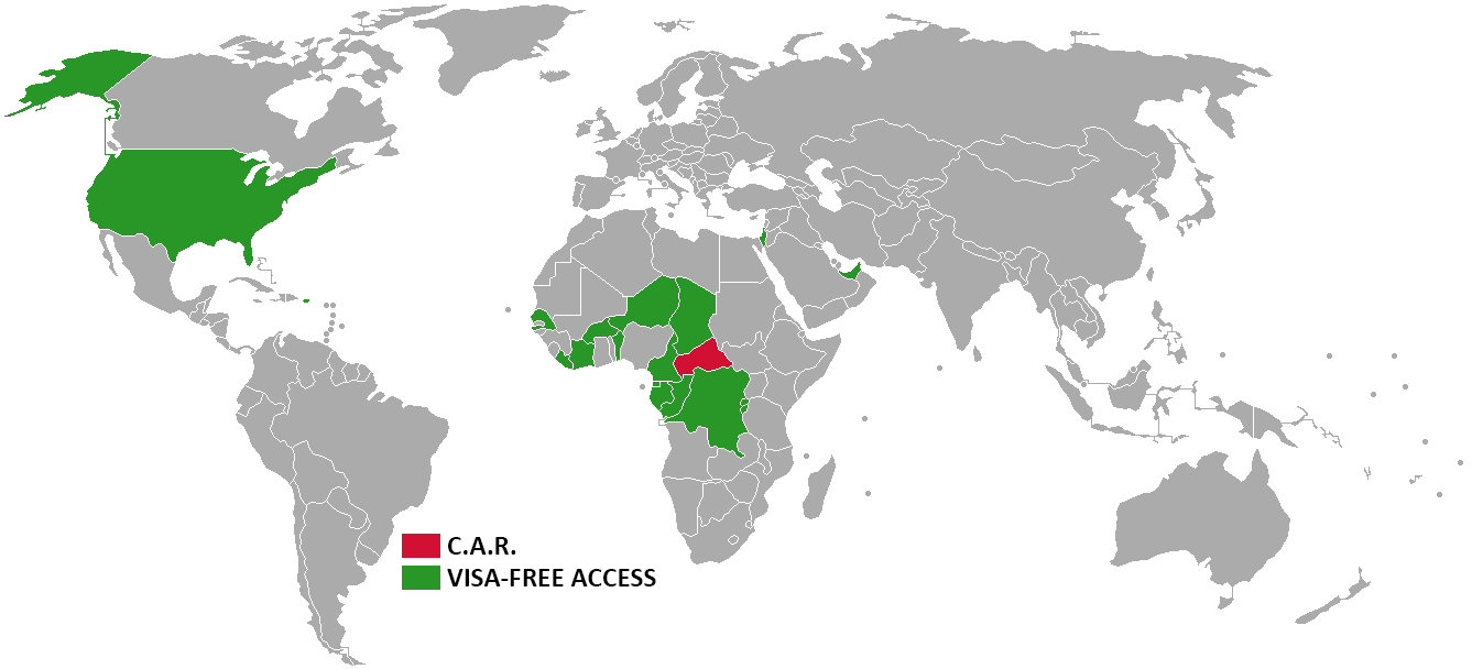 Visa policy of Central African Republic Central African Republic Visa exempt